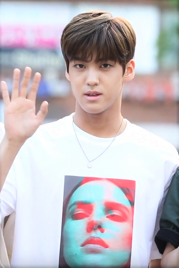 Song Yuvin attending a rehearsal of Music Bank with Myteen on July 20, 2018